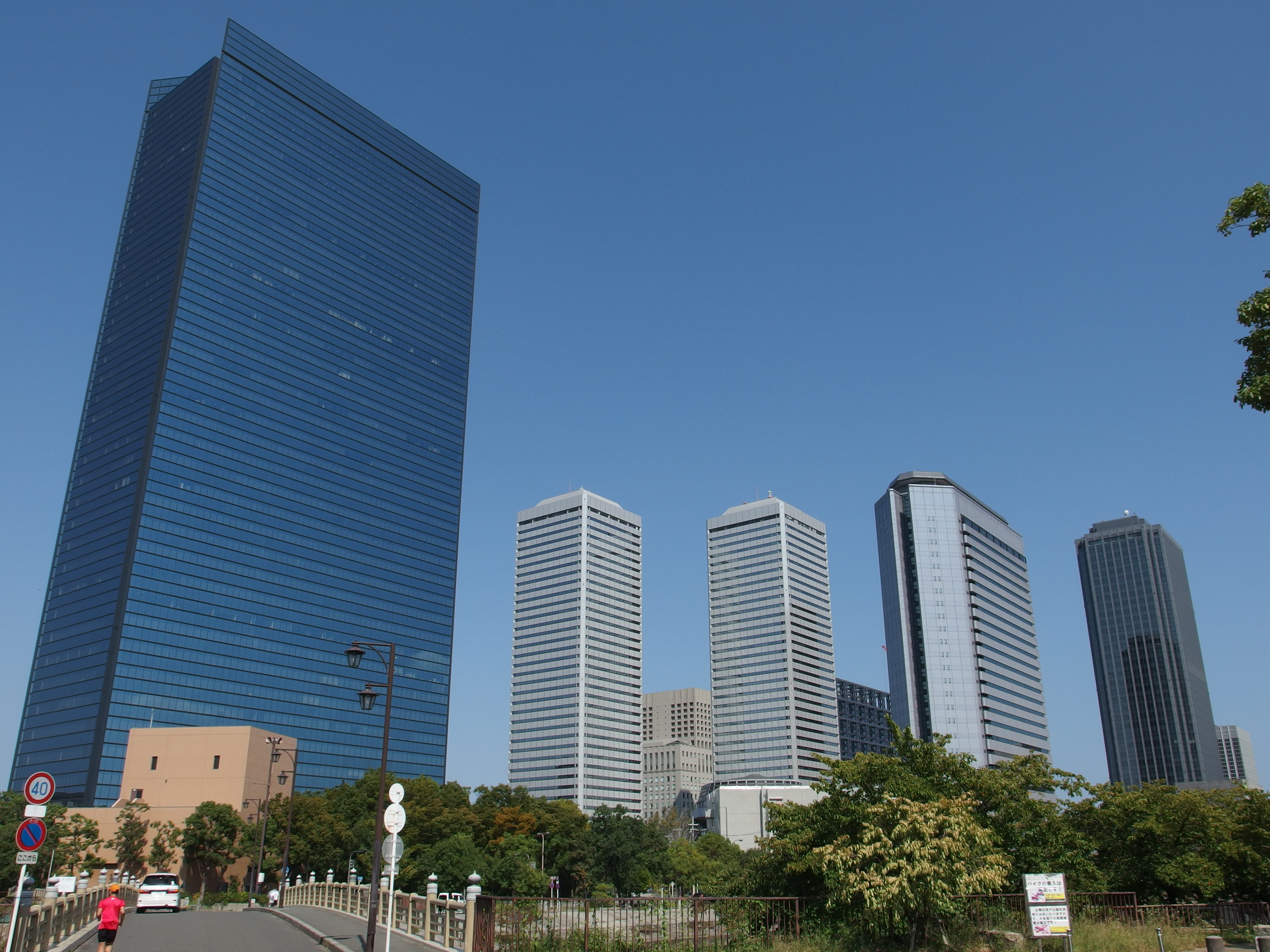 Osaka Business Park, Osaka, Osaka Prefecture, Japan